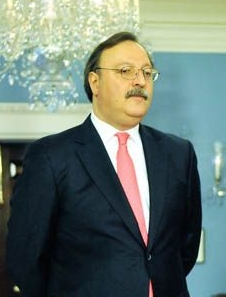 Grigol Vashadze, a Georgian politician.